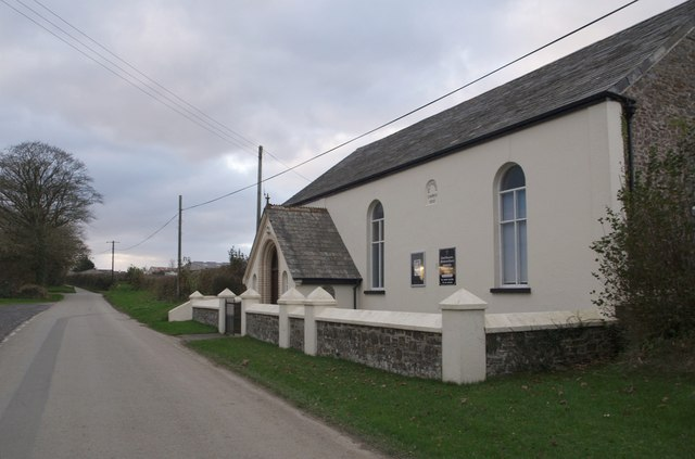 North Tamerton Methodist Church The church has two dates; a plaque on the porch reads "United Methodist Church 1869", while the one on the façade gives "Methodist Church 1932", so presumably one is the original building and the other a date of rebuilding or restoration. (The later one may just record the union of the United Methodists with the Methodist Church in 1932.) This is on the western outskirts of North Tamerton on the road to Wilsworthy Cross.